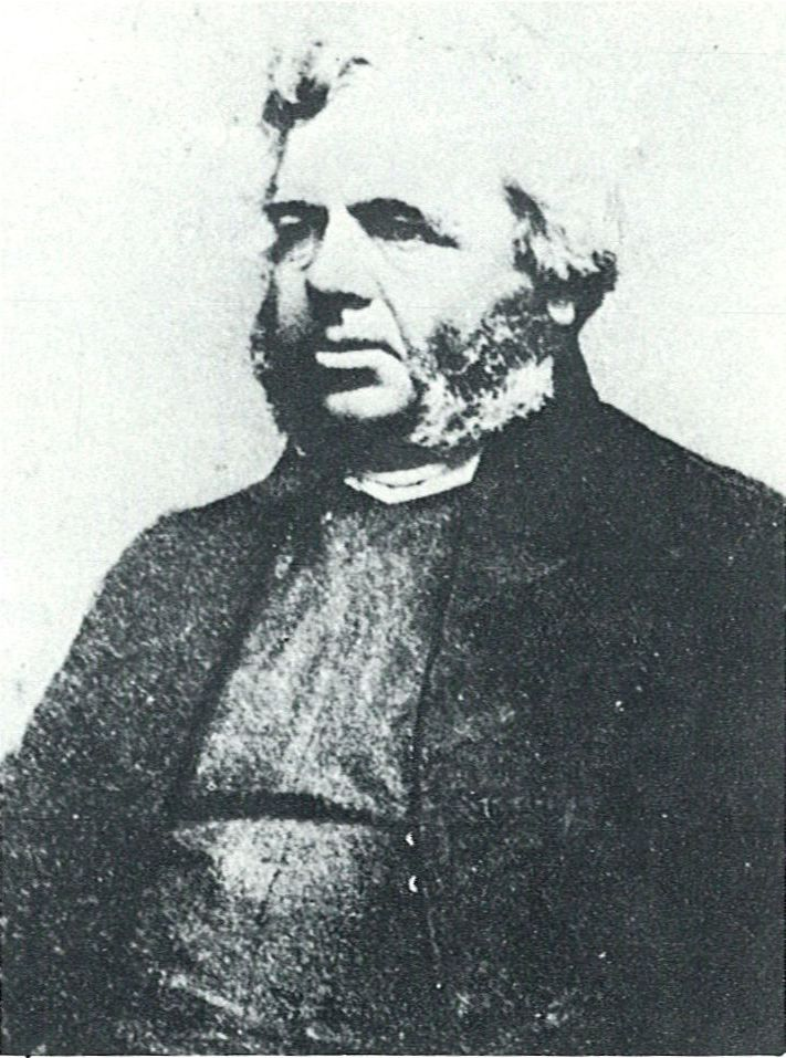 Scan of a page of The Journal of Henry Sewell, Vol I. Quote by Sewell: Plate 9: Rev. Octavius Mathias "that rabid man"